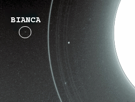 Bianca - moon of Uranus